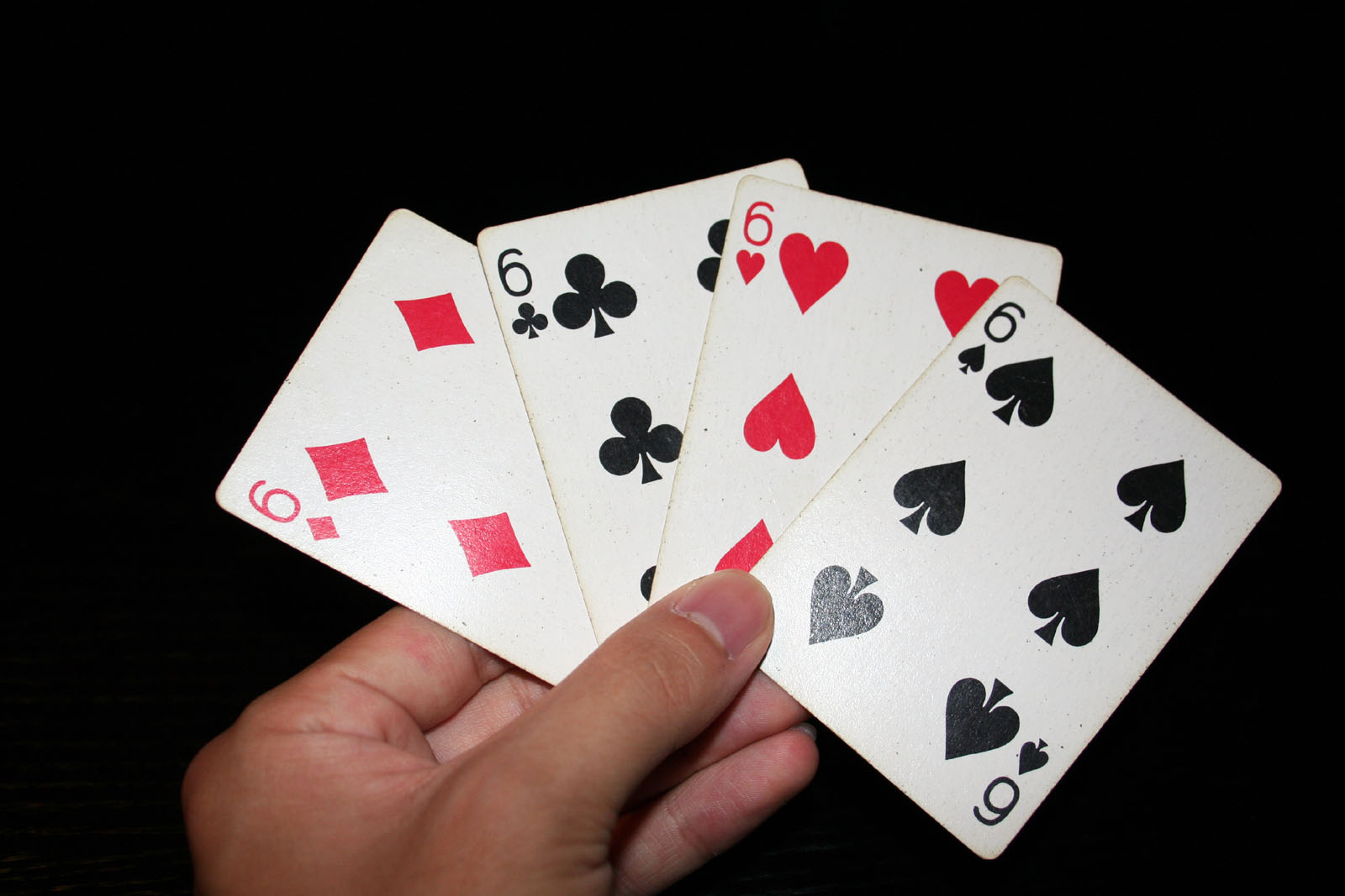 A hand holding the four 6's in a standard deck of cards: Diamonds, Clubs, Hearts, Spades.